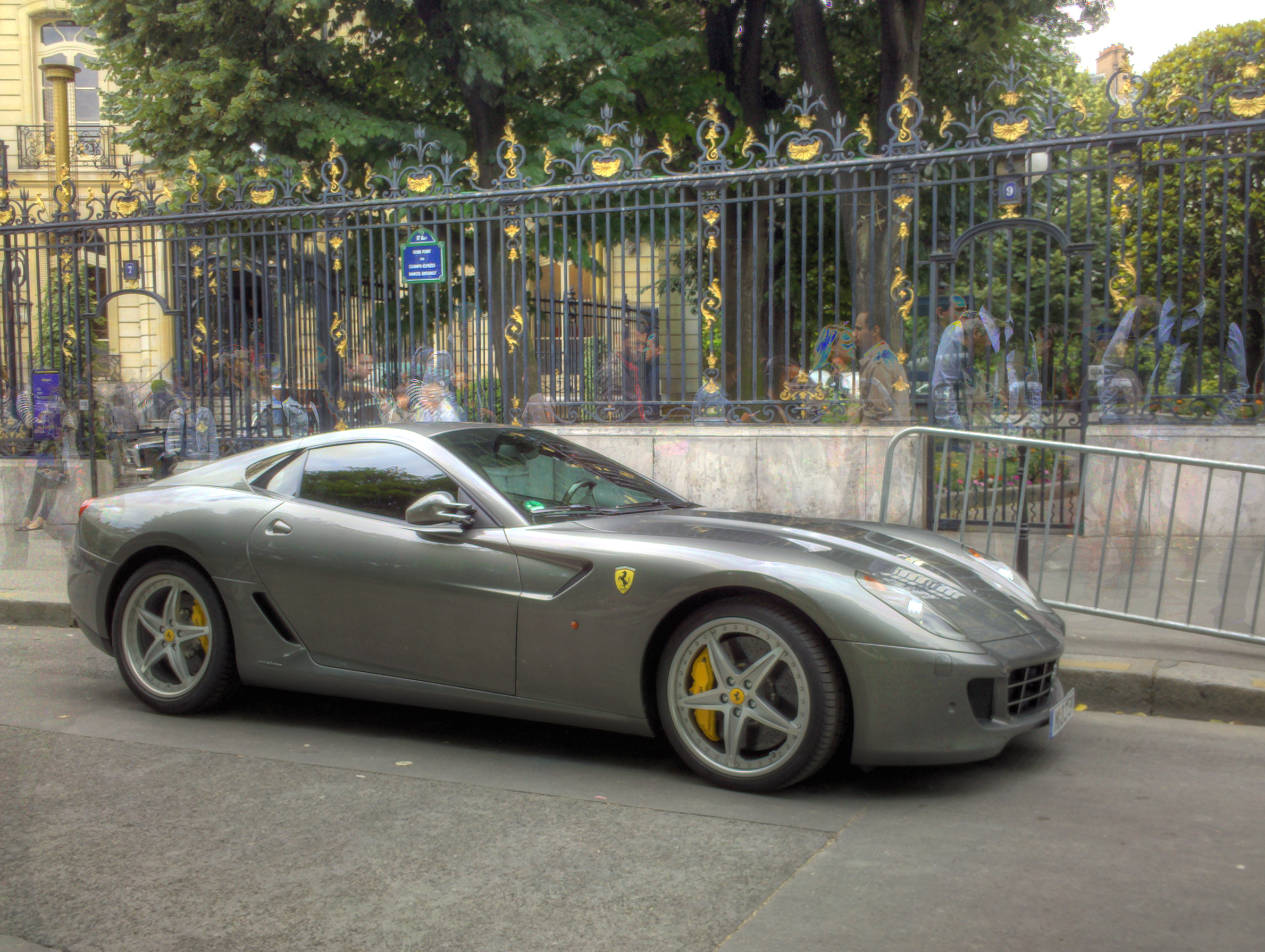 This is an HDR photo of a Ferrari 599 HGTE Fiorano, photographed in Paris, France, just off of Champs-Élysées. It is an amalgamation of 8 pictures that were captured using a Motorola Droid.